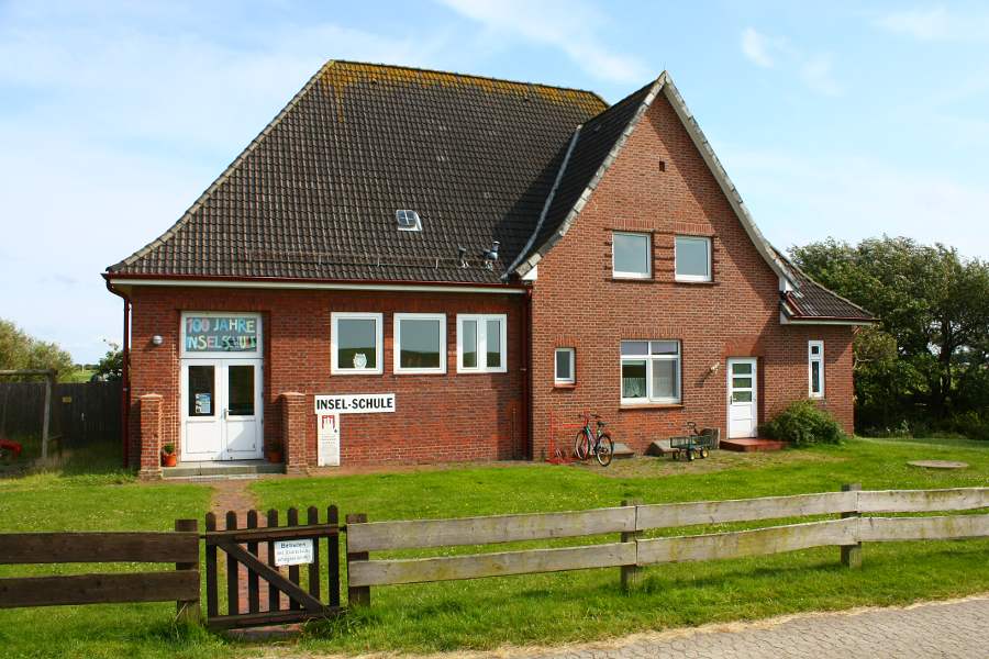 Island school Neuwerk